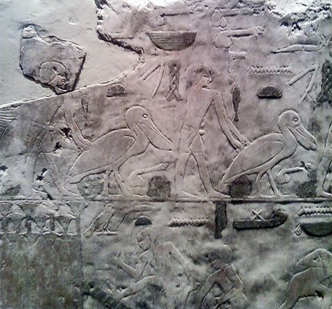 Detail of sun temple relief